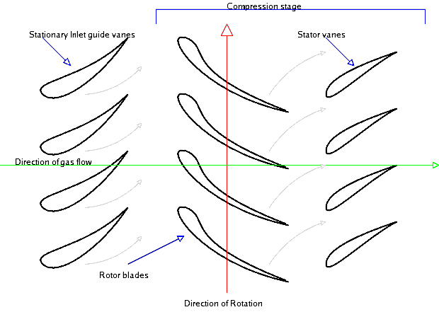 diagram of axial flow compressor